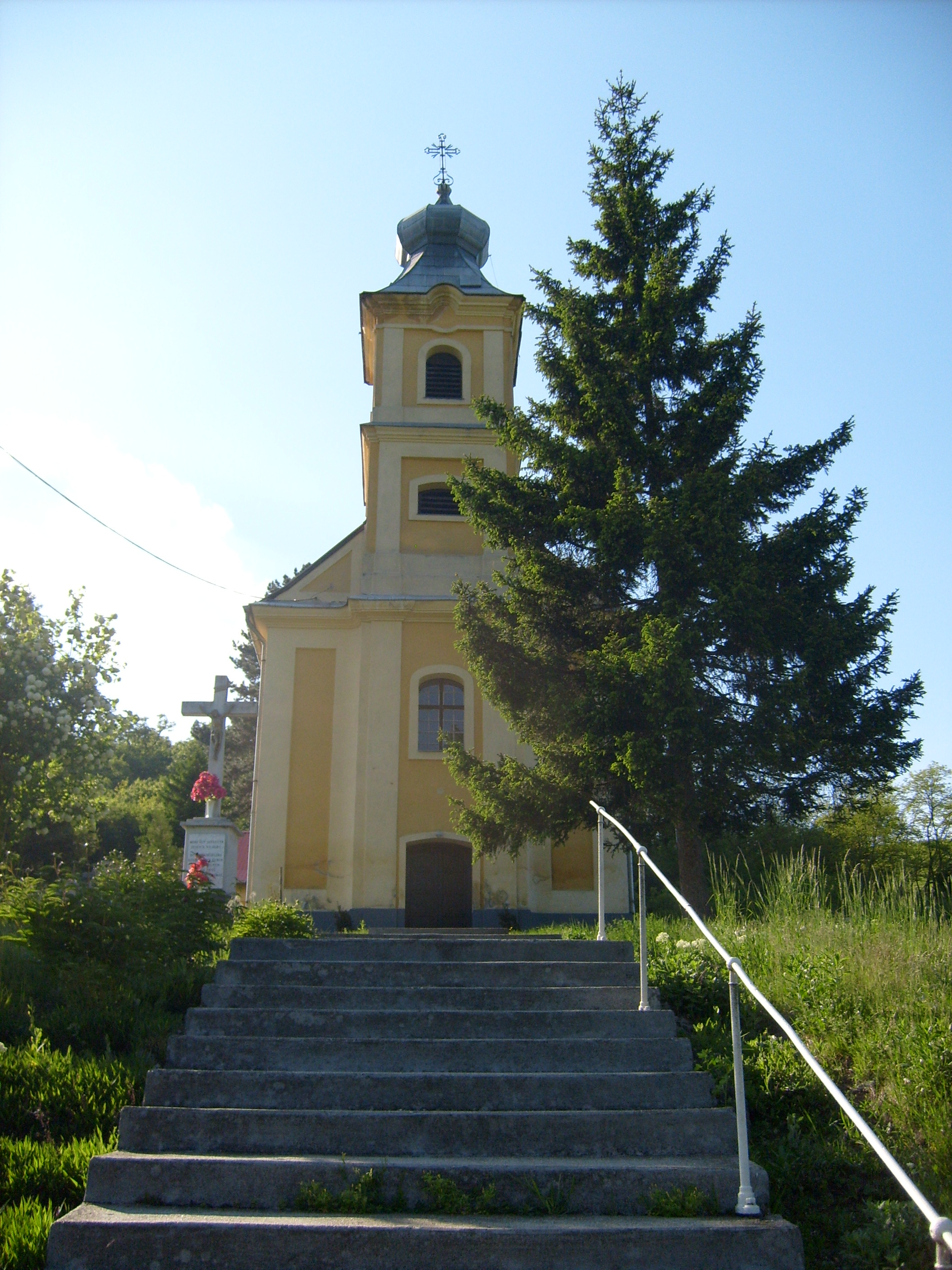 Roman Chatolich Church in the village Kirald